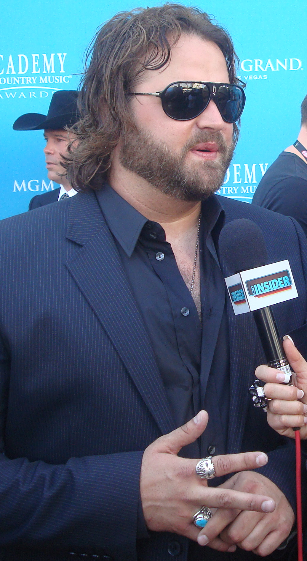 Randy Houser at the 45th Annual Academy of Country Music Awards.